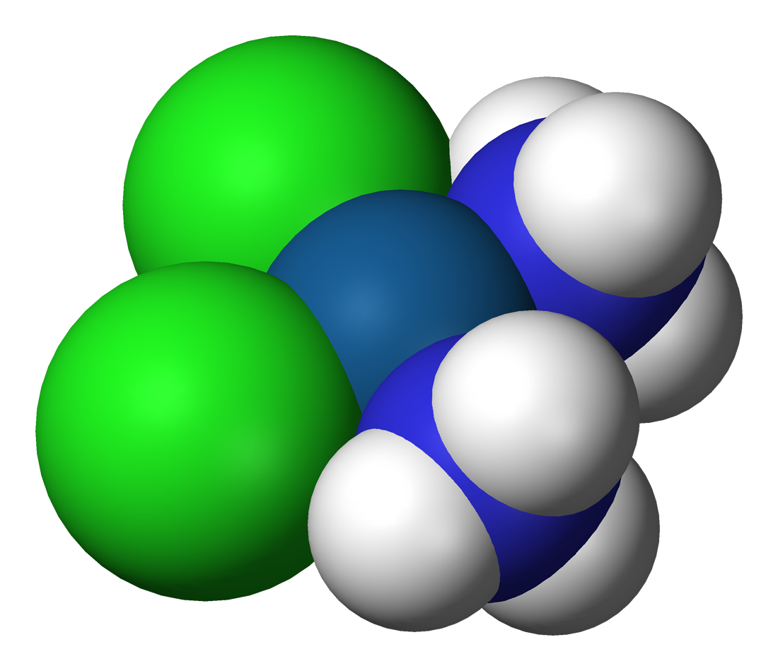 Space-filling model of cisplatin